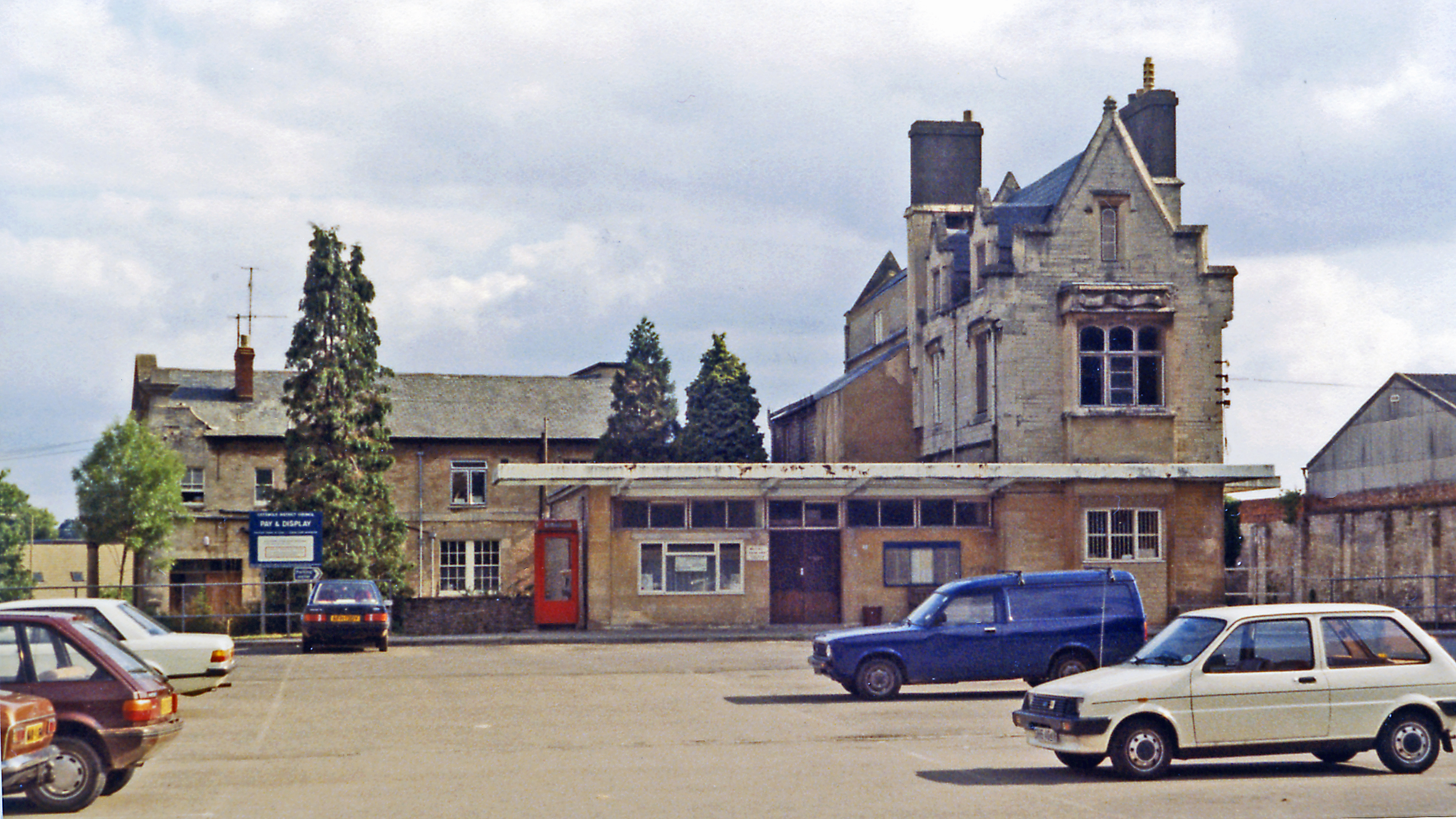 Former Cirencester Town station, 1984. View south, across the car-park. This splendid Brunel terminus of the GWR branch from Kemble had been closed for passengers from 6/4/64, for goods from 4/10/65, but in 1984 had not yet been demolished and built over by a Supermarket.